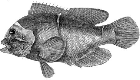 Illustration of Premnas biaculeatus (Bloch, 1790)) in « Histoire Naturelle des Poissons » (1830).